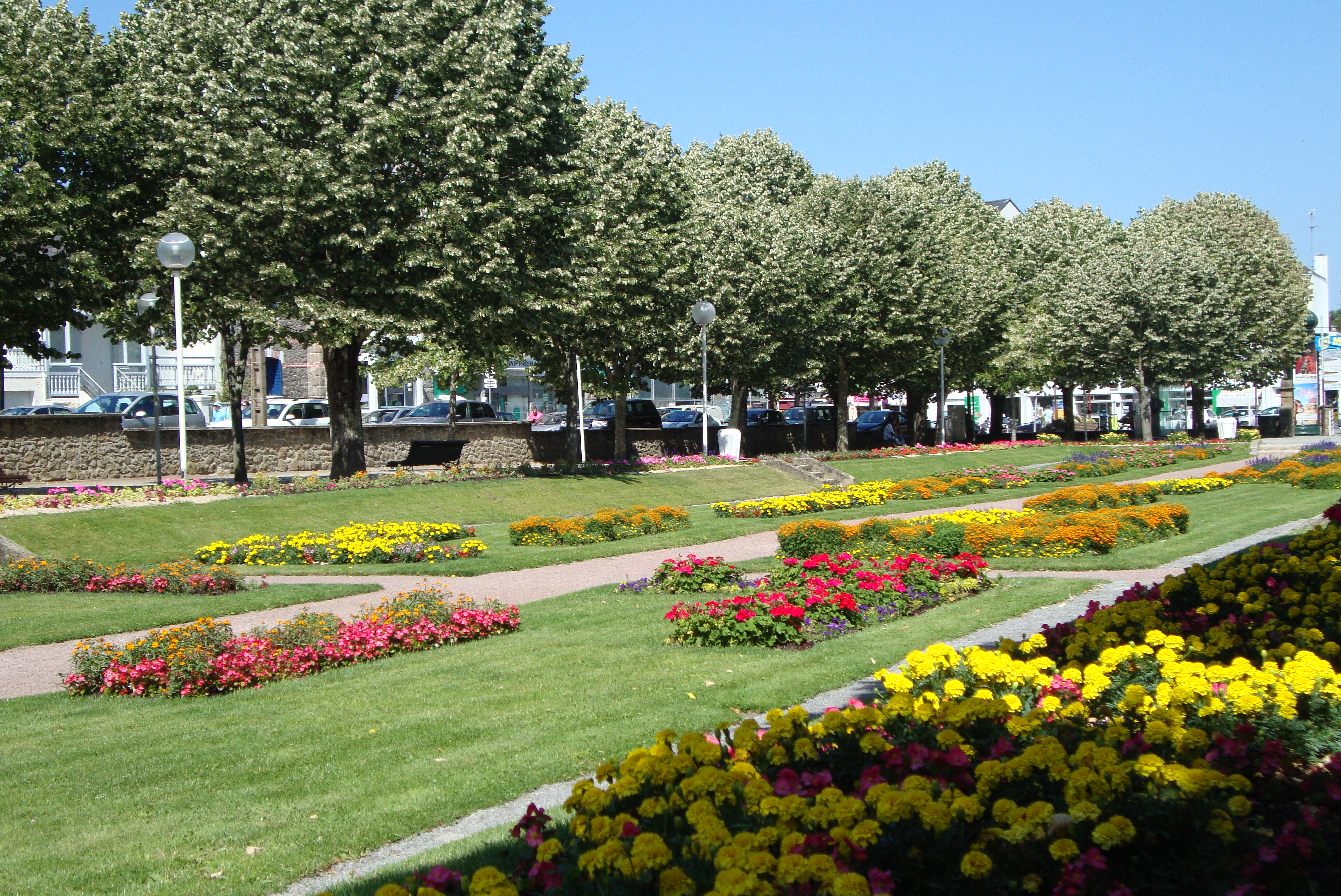 Victory square in La Baule-Escoublac, France